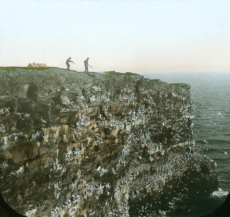 Photograph, glass lantern slide, Bird Rock, Gaspé(?), QC, about 1910, Anonymous, Silver salts and transparent ink on glass - Gelatin dry plate process - 8 x 10 cm